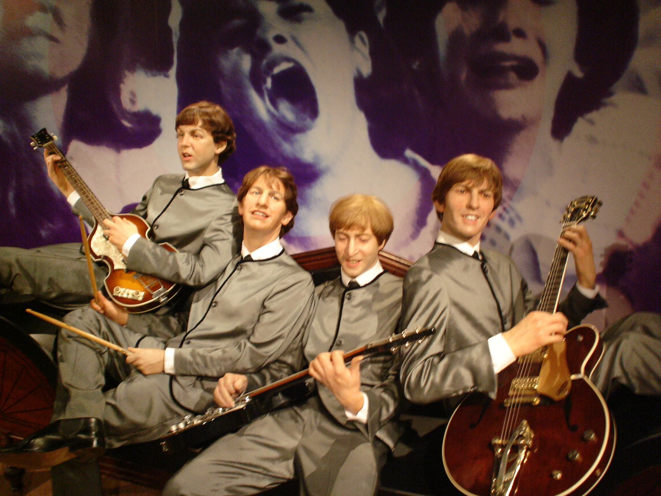 The Beatles wax figures in Hong Kong.